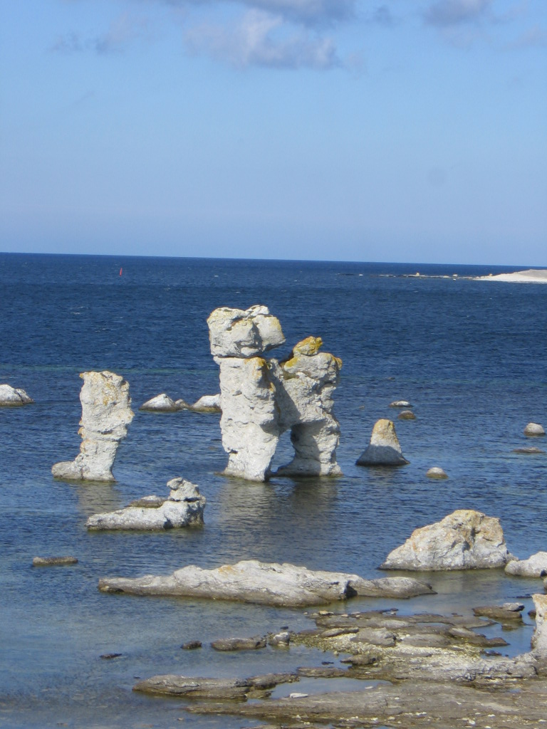 The rauk "Hunden" (The Dog), also called "Kaffepannan" (The coffee kettle) at Gamle hamn om the Swedish island of Fårö's west coast.